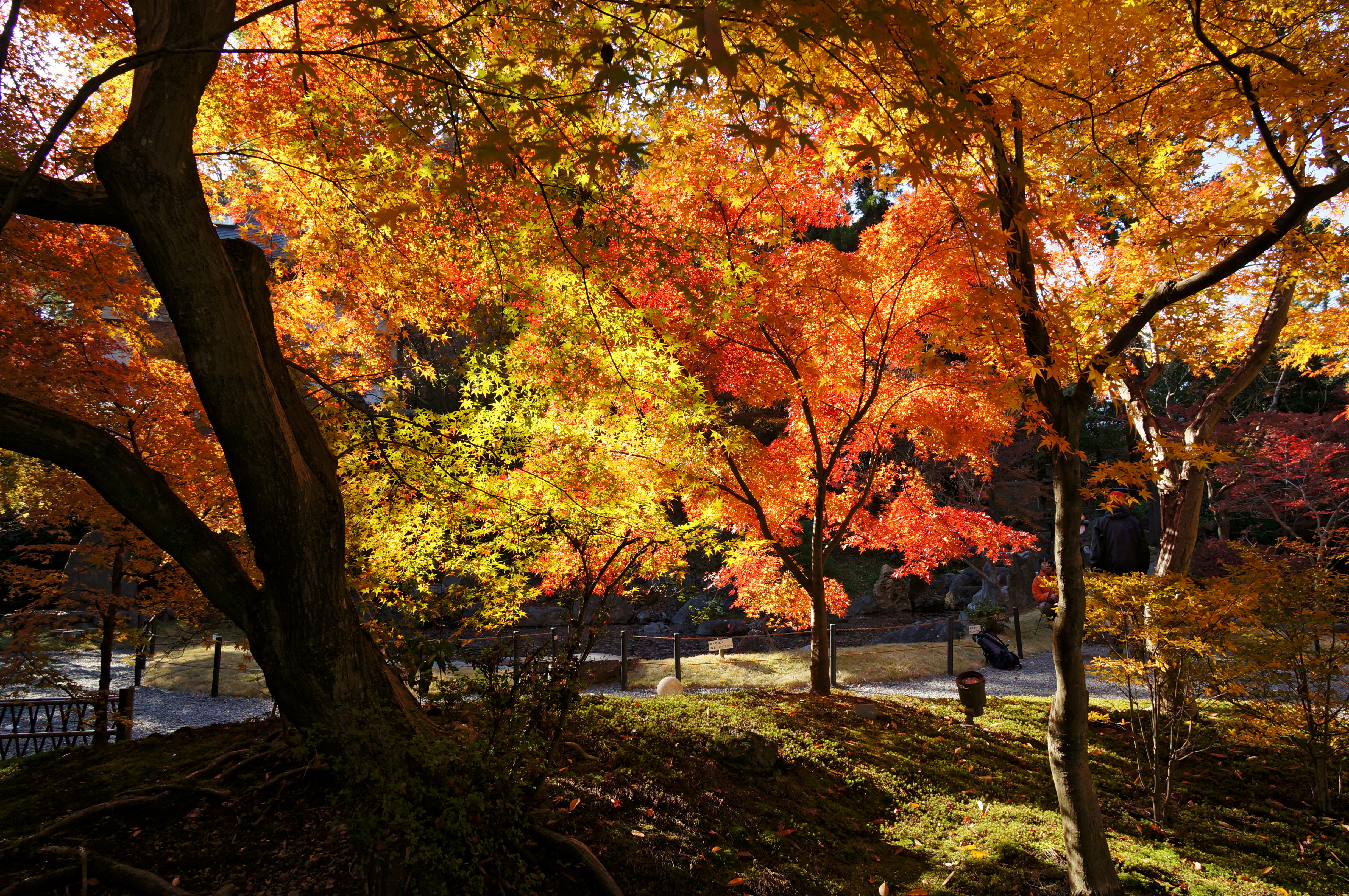 At Nagaoka Tenman-gū in Nagaokakyō, Kyoto prefecture, Japan